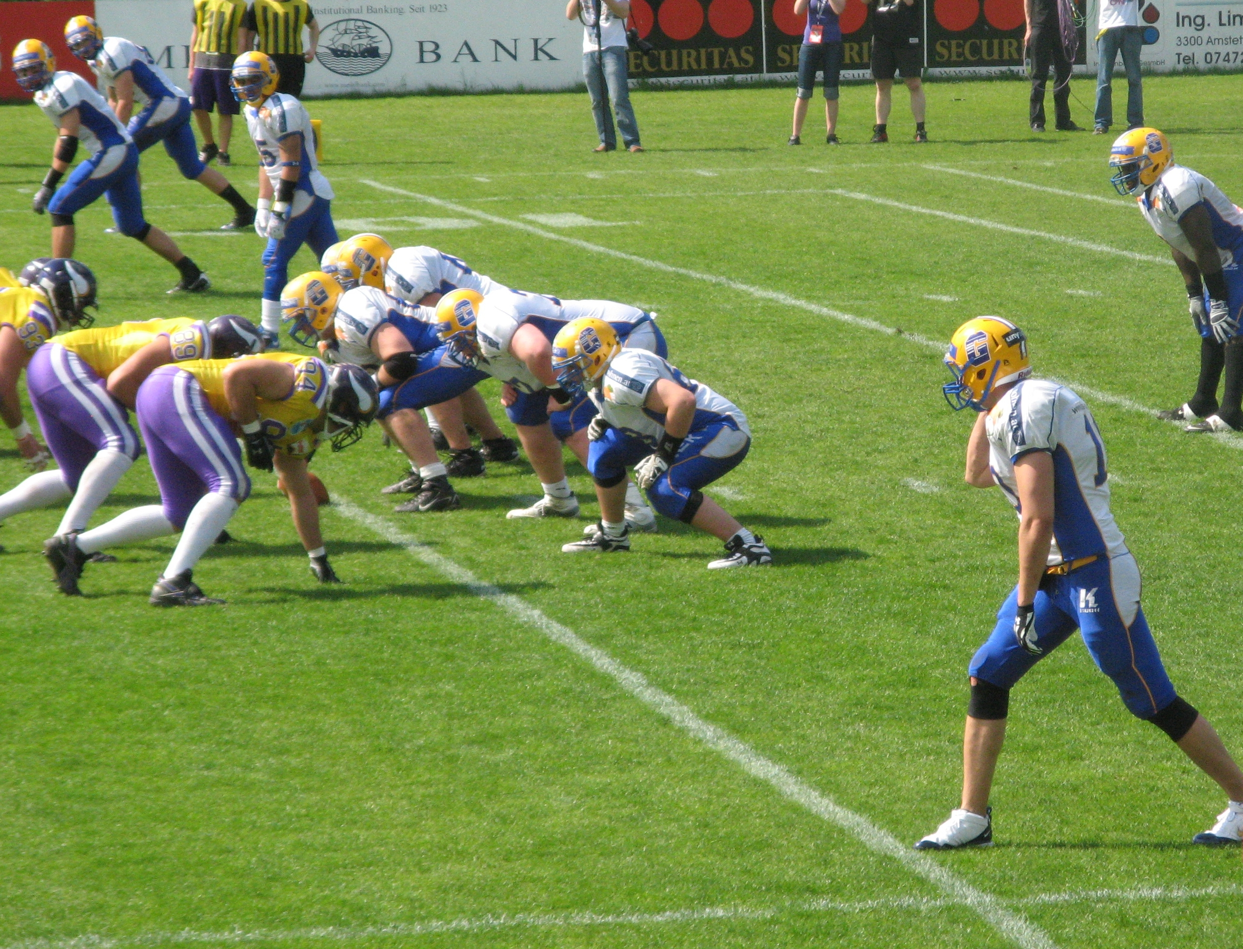 Austrian Football League regular season match Raiffeisen Vikings Vienna vs. Turek Graz Giants (27:24), @ Hohe Warte Stadium Vienna.